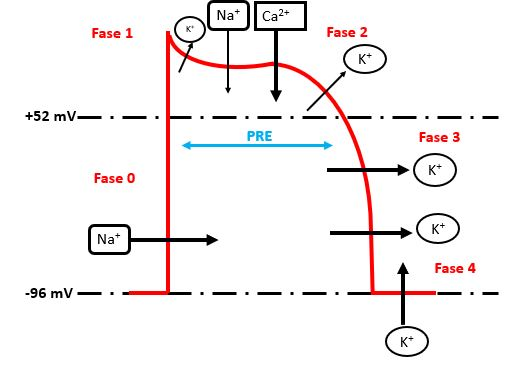 Cardiac action potential and effective refractory period